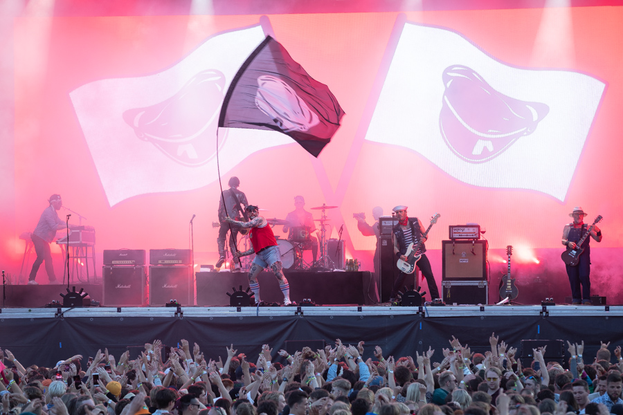 Turboneger at Stavernfestivalen. The concert took place on 12. July 2019 in Stavern. Lineup:Anthony Madsen-Sylvester (vocal)Thomas Seltzer (bass guitar)Knut Schreiner (guitar)Rune Grønn (guitar)Tommy Akerholdt (drums)Haakon-Marius Pettersen (keyboard)